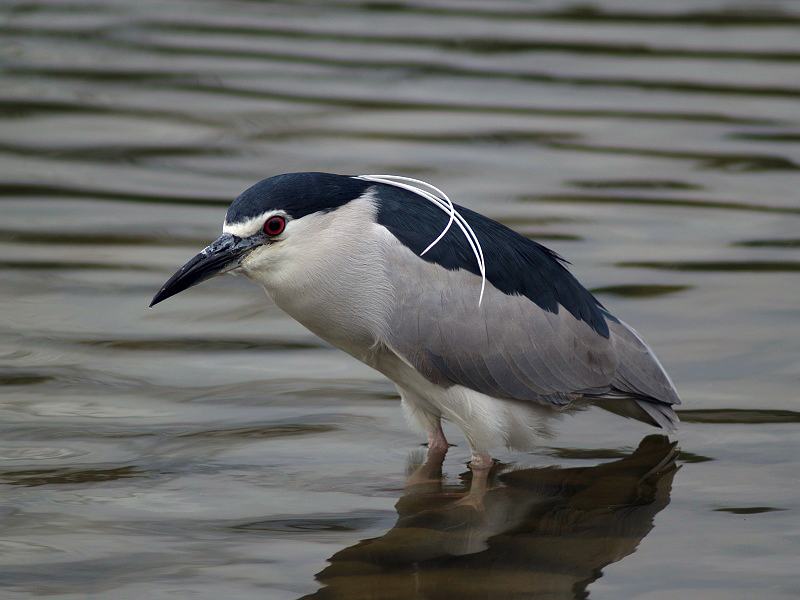 Nycticorax nycticorax夜鷺